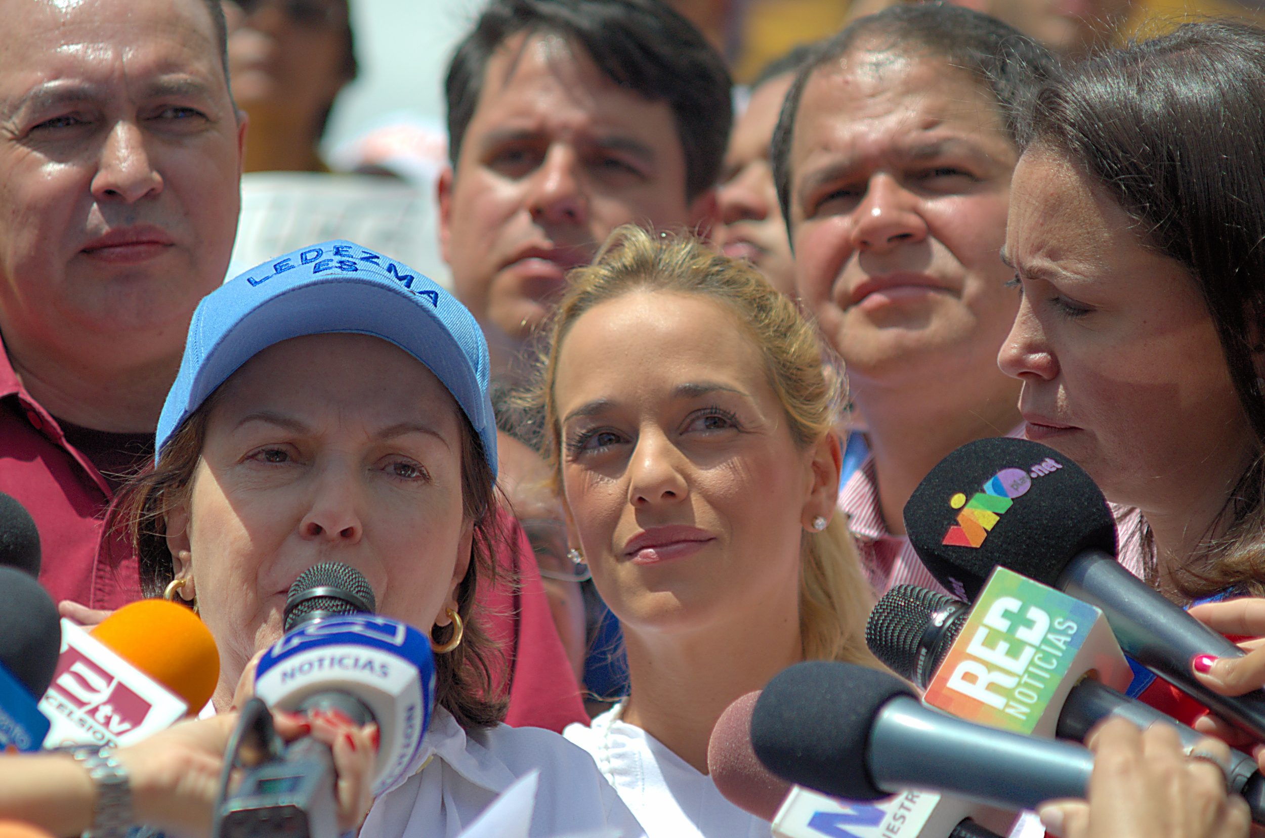 National Assembly deputy Richard Blanco, former deputy María Corina Machado and Lilian Tintori (wife of imprisoned opposition leader Leopoldo Lopez) supporting Mrs. Mitzy Capriles de Ledezma, wife of the Metropolitan Mayor of Caracas, who was detained on February 19th 2015 by the secret police of the socialist government of Nicolas Maduro (SEBIN). The Mayor has been accused of plotting to coup the government.